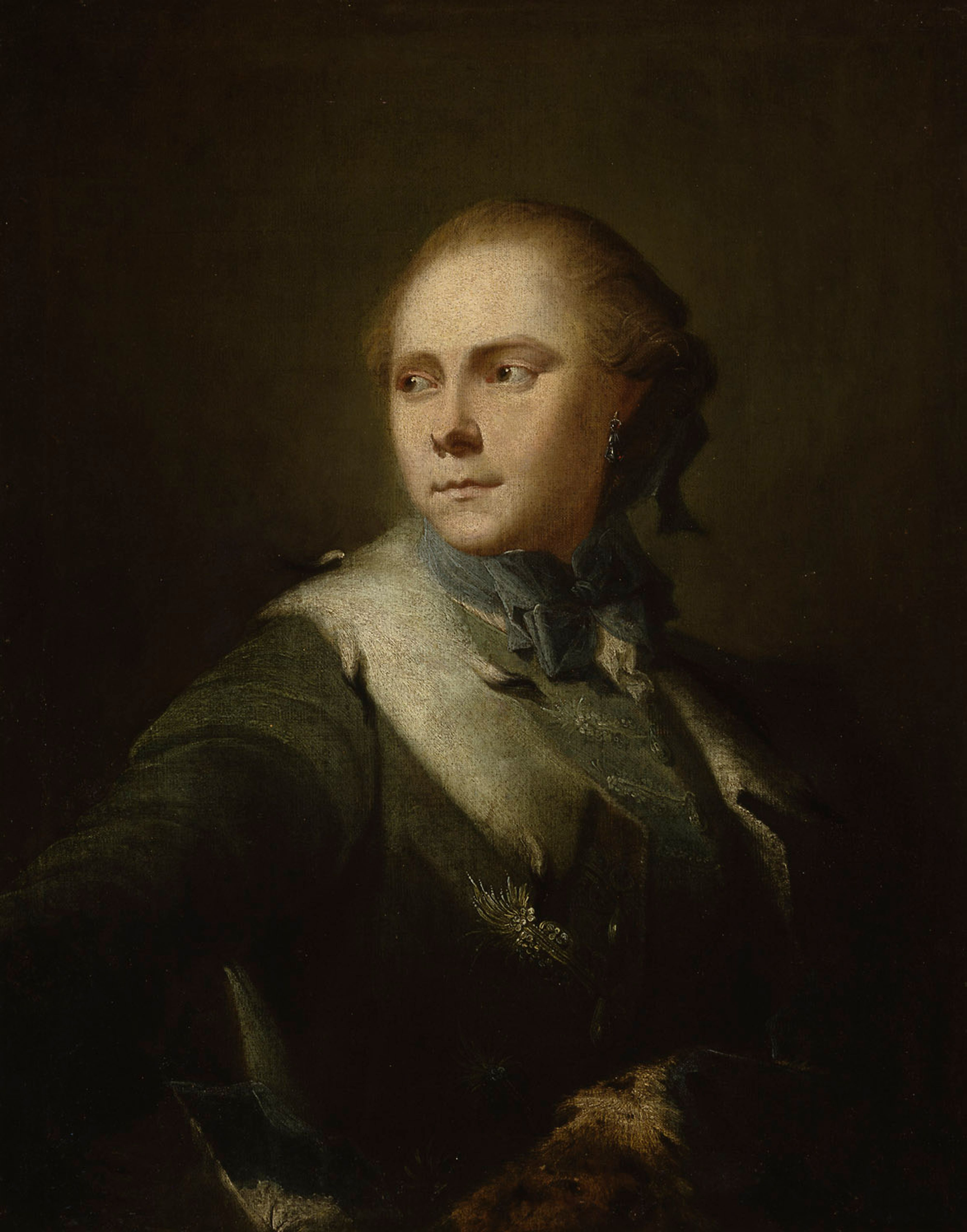 Dorothea Maria Losch oil on canvas 71,5 x 56,5 cm 1755